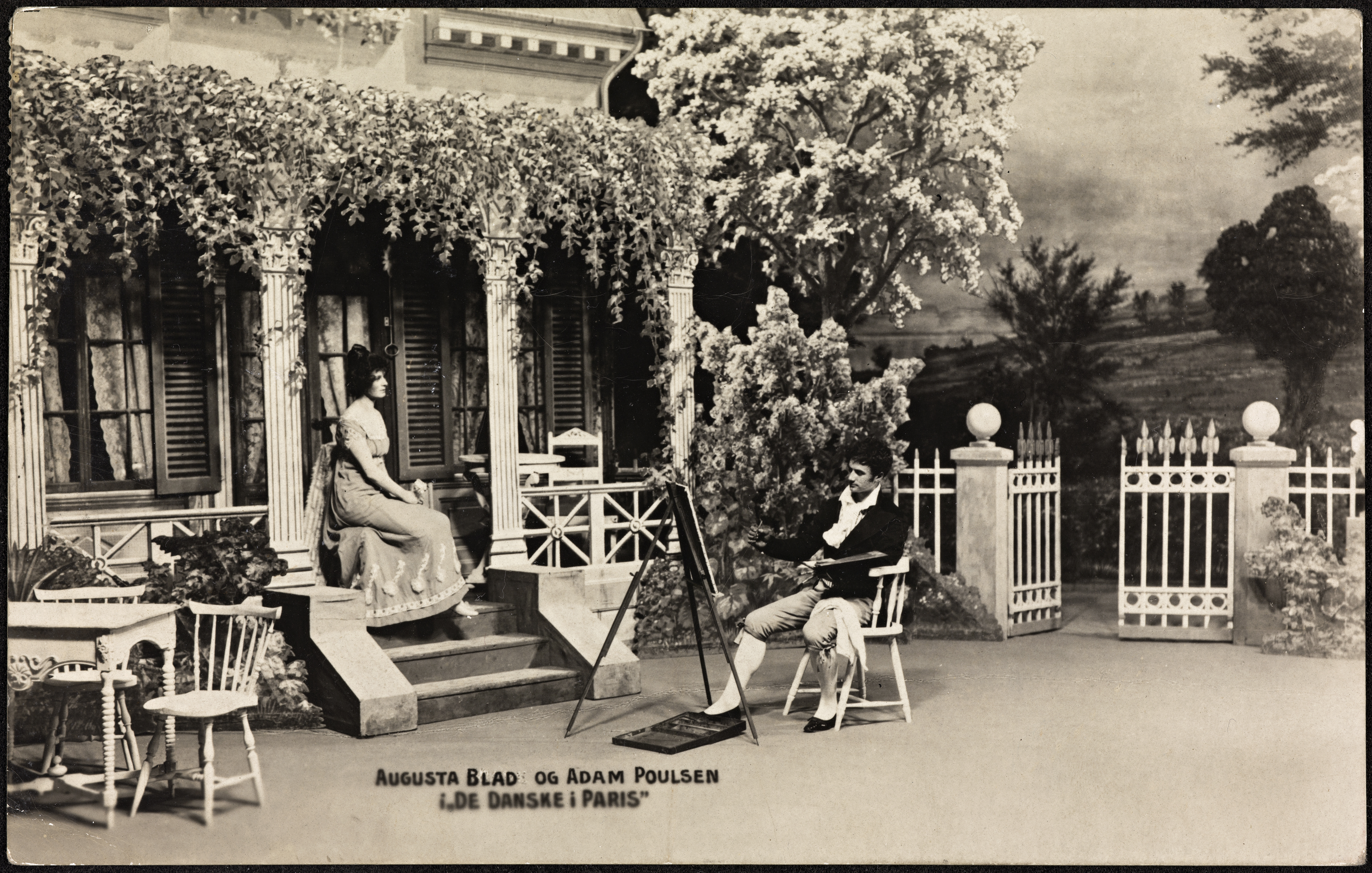 Beskrivelse / Description: "De Danske i Paris" er en vaudeville av Johan Ludvig Heiberg, første gang oppført i 1833. Augusta Blad (1871-1953) og Adam Poulsen (1879-1969) var danske skuespillere. Dato / Date: ca. 1908 Sted / Place: Danmark Fotograf / Photographer: ukjent / unknown Utgiver / Publisher: Alex. Vincent's Kunstforlag Digital kopi av original / Digital copy of original: s/h postkort, sølvgelatin Eier / Owner Institution: Nasjonalbiblioteket / National Library of Norway Lenke / Link: Bildesignatur / Image Number: blds_07054